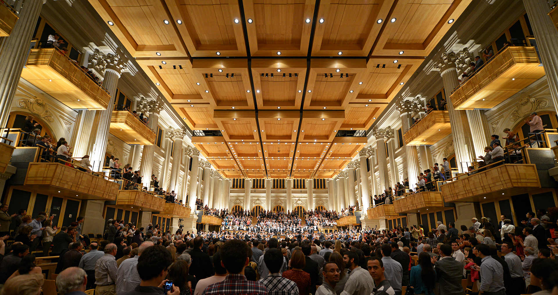 Sala São Paulo, main space for classical music presentations of Julio Prestes Cultural Complex, Sao Paulo - SP - Brazil.